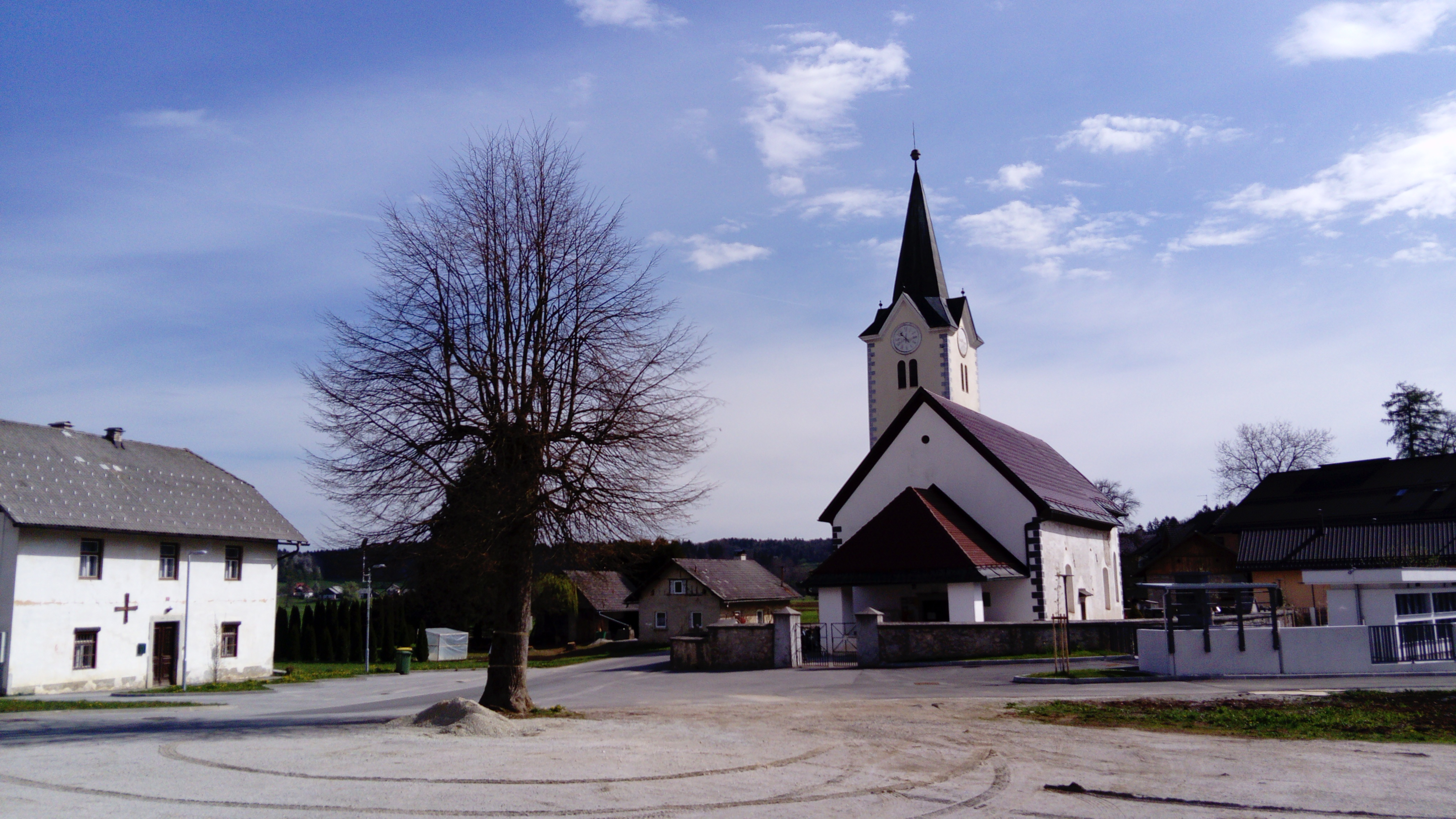 Assumption of Mary Church in Muljava (central Slovenia), a chapel of ease of the Parish of Krka.